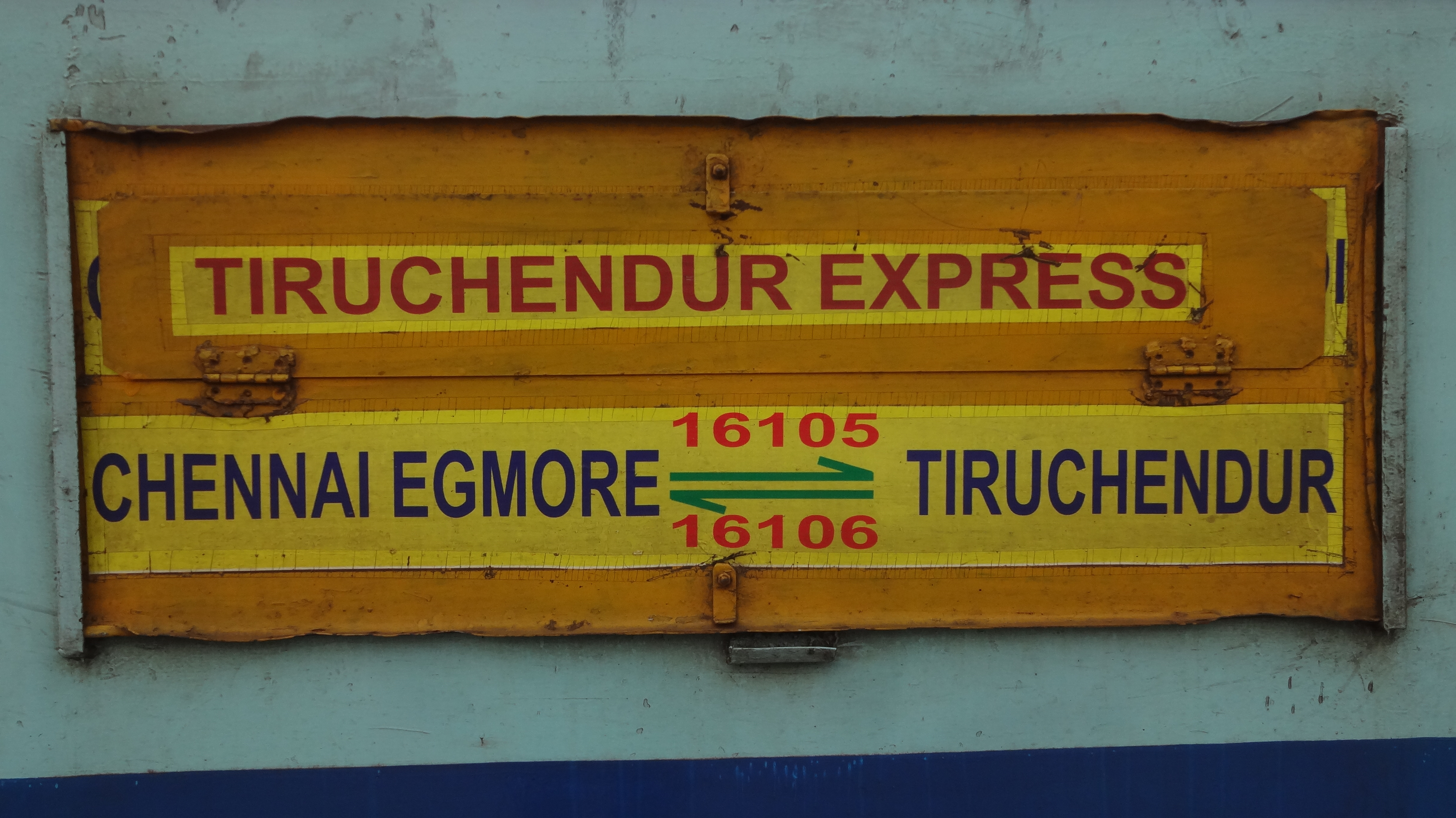 The Name board of Tiruchendur Express